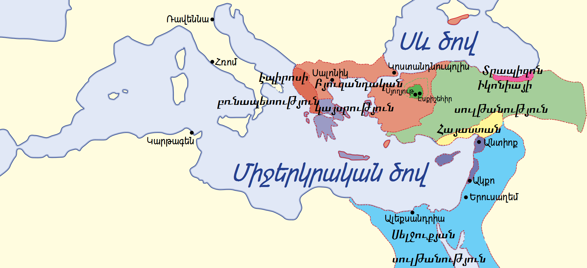 Map of Eastern Mediterranean region — with Near East and southeastern Balkans, c. 1263. KEY: Green: Ottoman Empire domain by 1300's, dotted line indicates conquests up to 1326 CE. Light Red: Byzantine Empire (successor of Nicaean Empire) Dark Green: Turk lands, nominal vassals of Sultanate of Rûm Light Yellow: Armenian Kingdom of Cilicia Dark/Light Purple Latin states Sky blue: Bahri dynasty of the Mamluk Sultanate (Egypt, Levant)